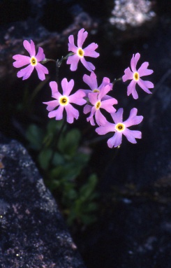 Dean Burke, Ontario Parks Staff